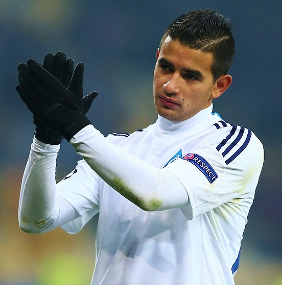 Derlis González